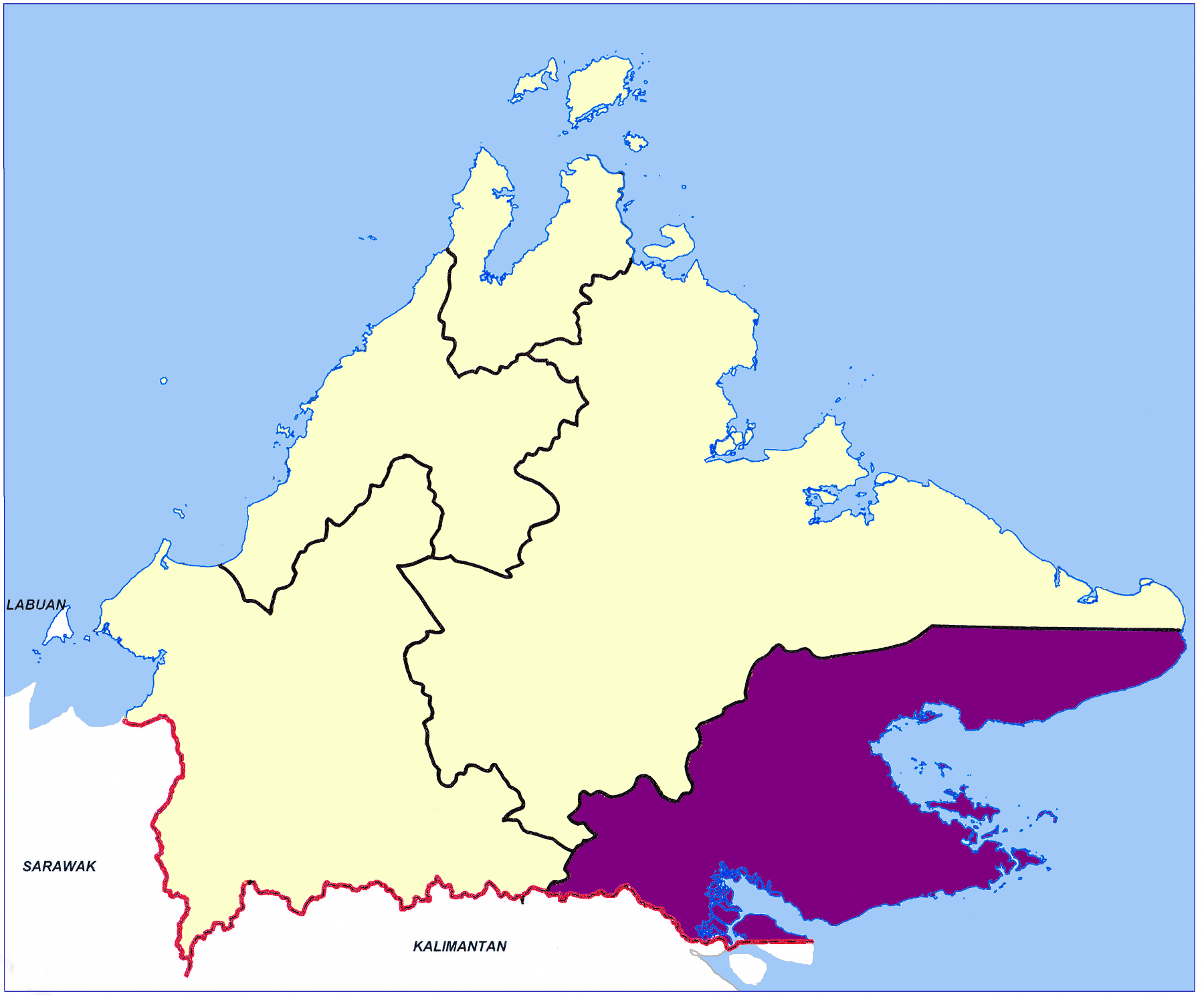 Sabah: Area covered by the Tawau Division